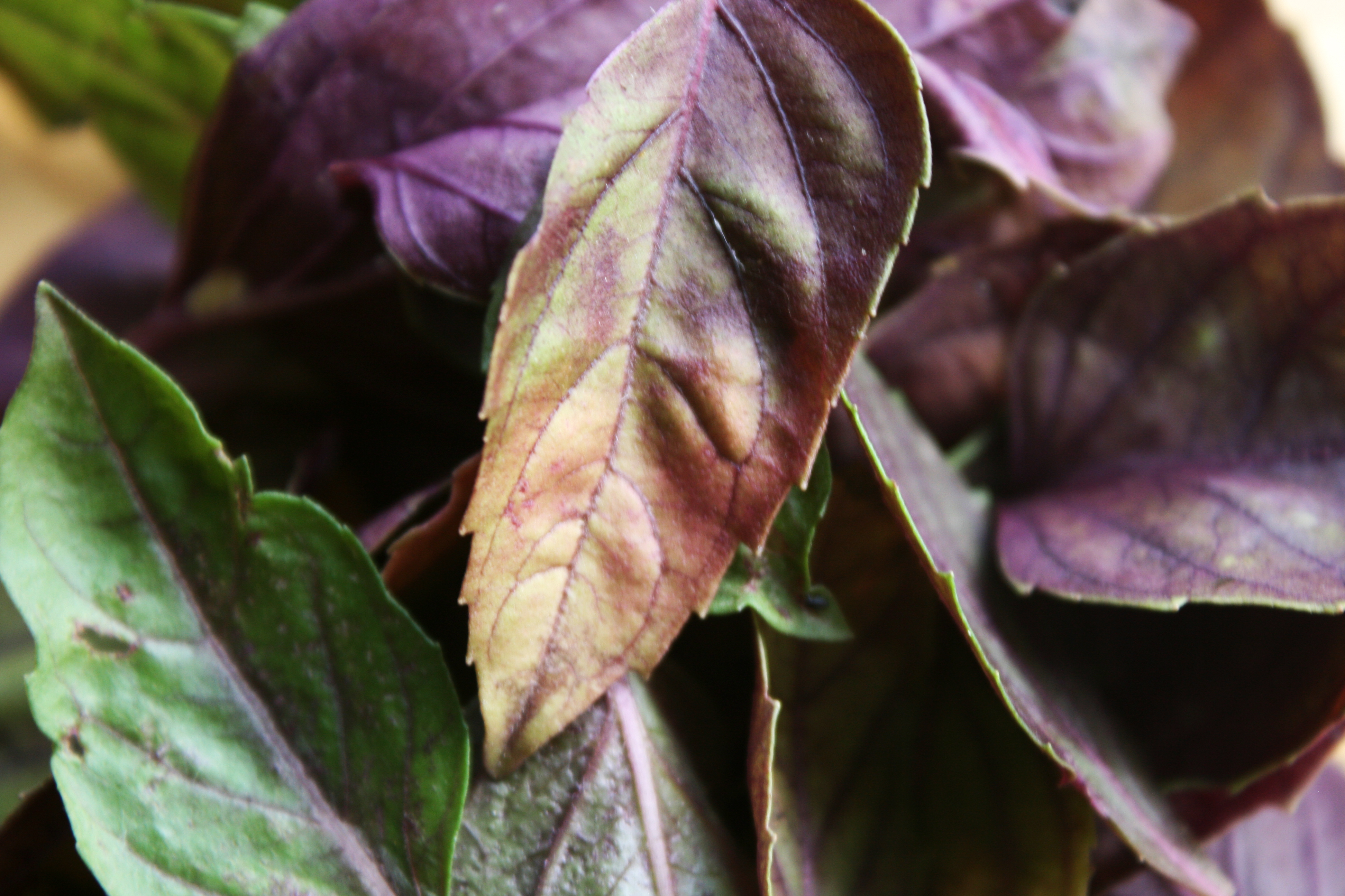 A picture of Dark Opal Basil